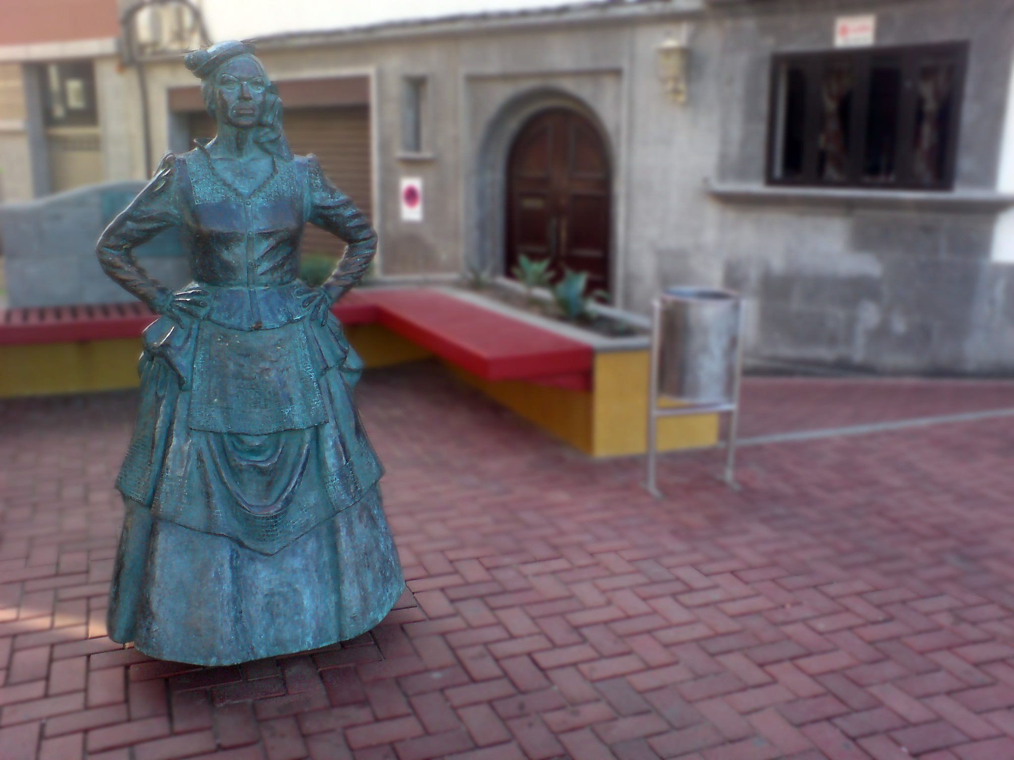 Statue of Mary Sanchez (1934, singer of canarian folklore), inaugurated in 2006. Las Canteras Beach, Las Palmas de Gran Canaria (Gran Canaria). Canary Islands, Spain.